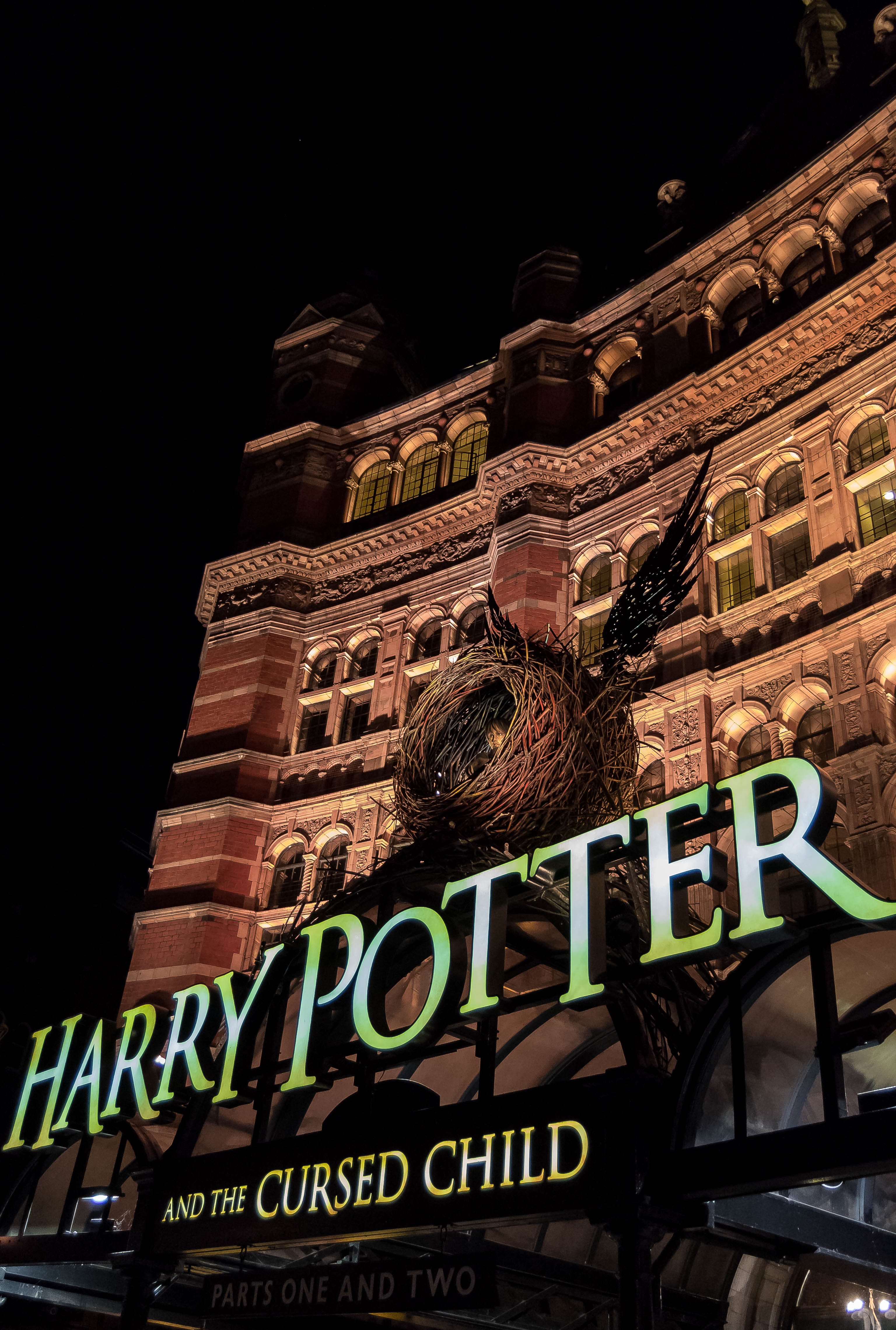 Palace Theatre Wikidata has entry Q4592132 with data related to this item.